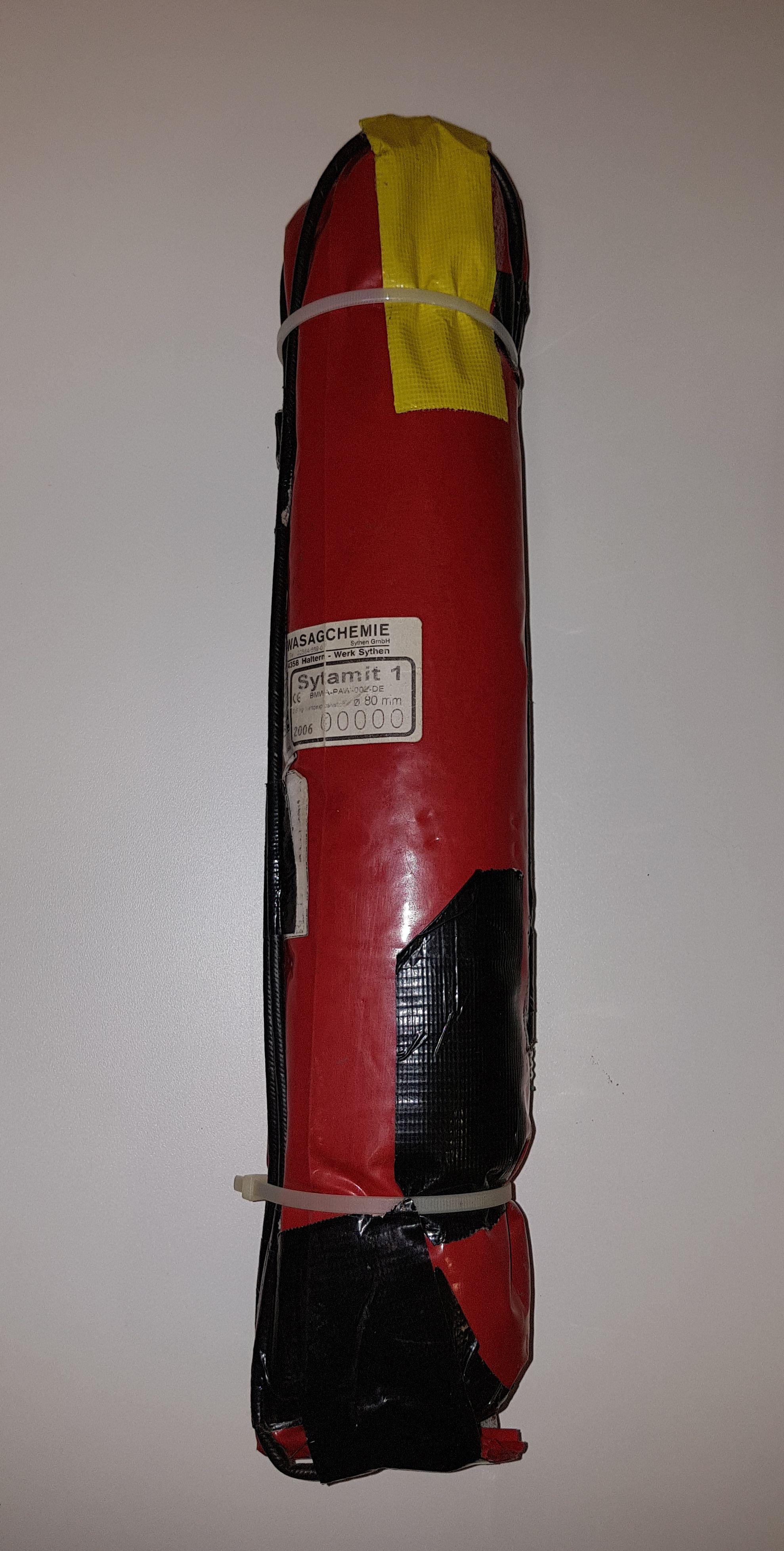 Avalanche blasting (avalanche dispersion) by hand. Ready-prepared bursting (explosive) charge Sytamit 5kg (diameter 80mm).